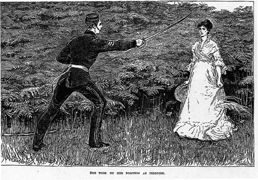 Original illustration from the first, serialised edition of Far from the Madding Crowd.